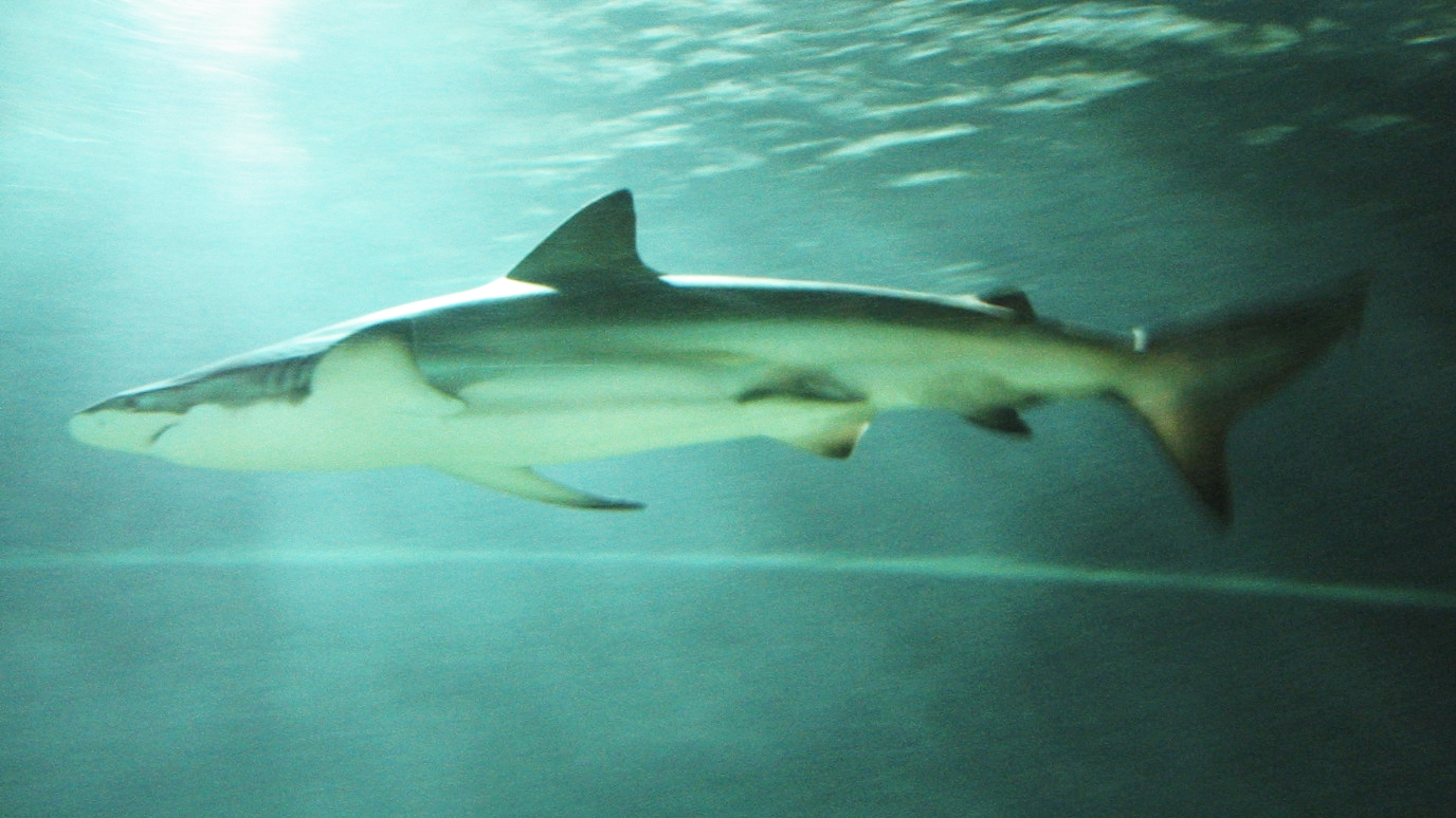 Bronze whaler (Carcharhinus brachyurus) at Kelly Tarlton's Antarctic Encounter and Underwater World in Auckland, New Zealand.